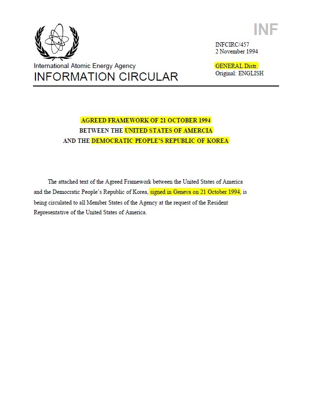 Agreed Framework 1994 Cover Page with highlight of keywords.